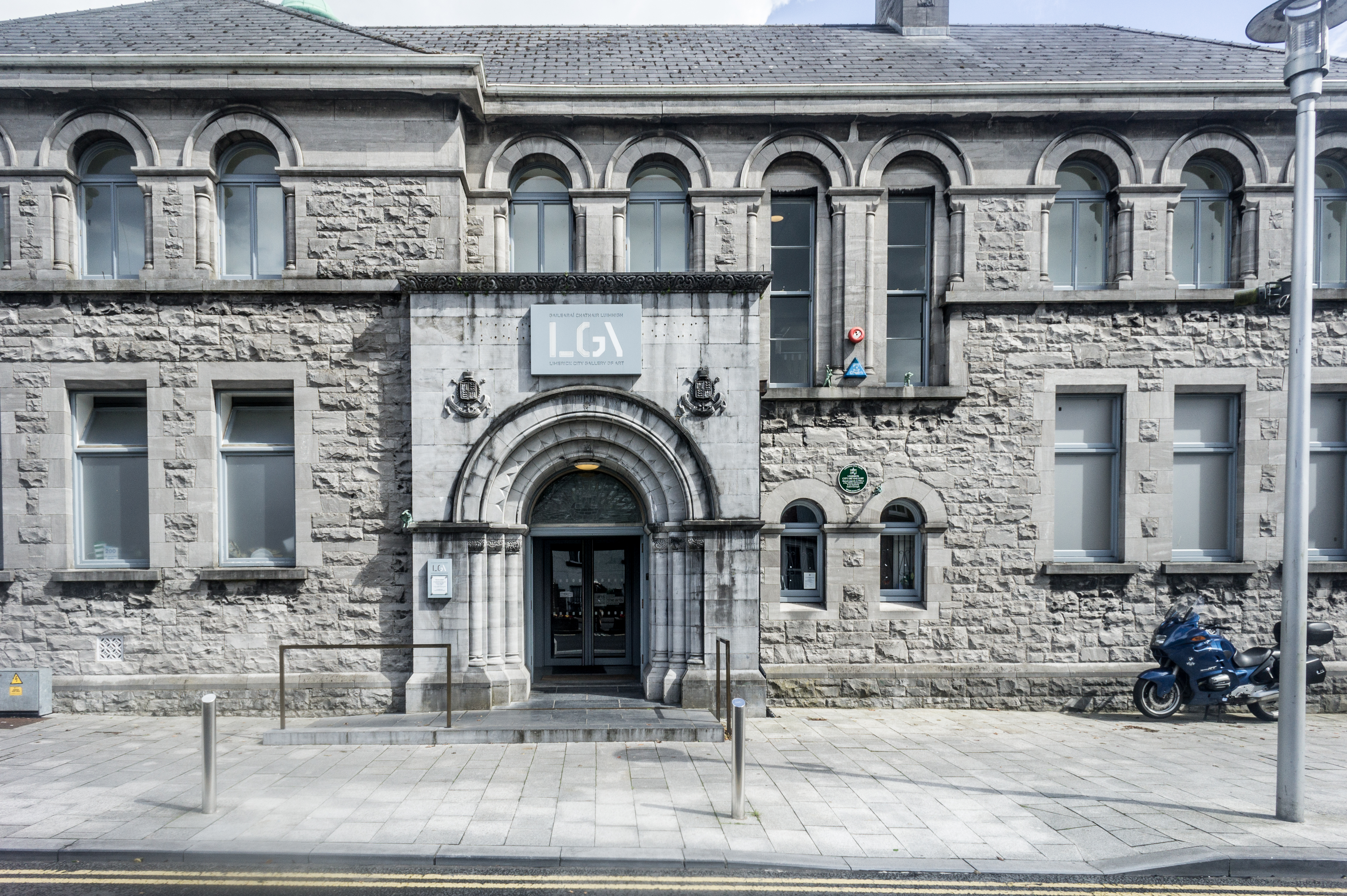 Saturday 12th April, 2014 to Sunday 6th July, 2014 Exhibitions by 56 Irish and international artists open at Limerick City Gallery of Art, Kerry Group former Golden Vale Milk Plant, The Hunt Museum and Bourn Vincent Gallery